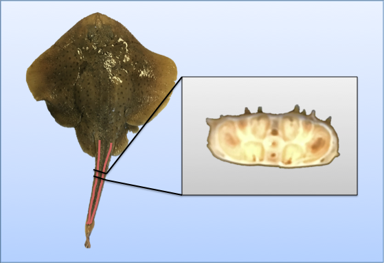 photoshopped picture of the skate with a cross section of the longitudinal EO in the tail